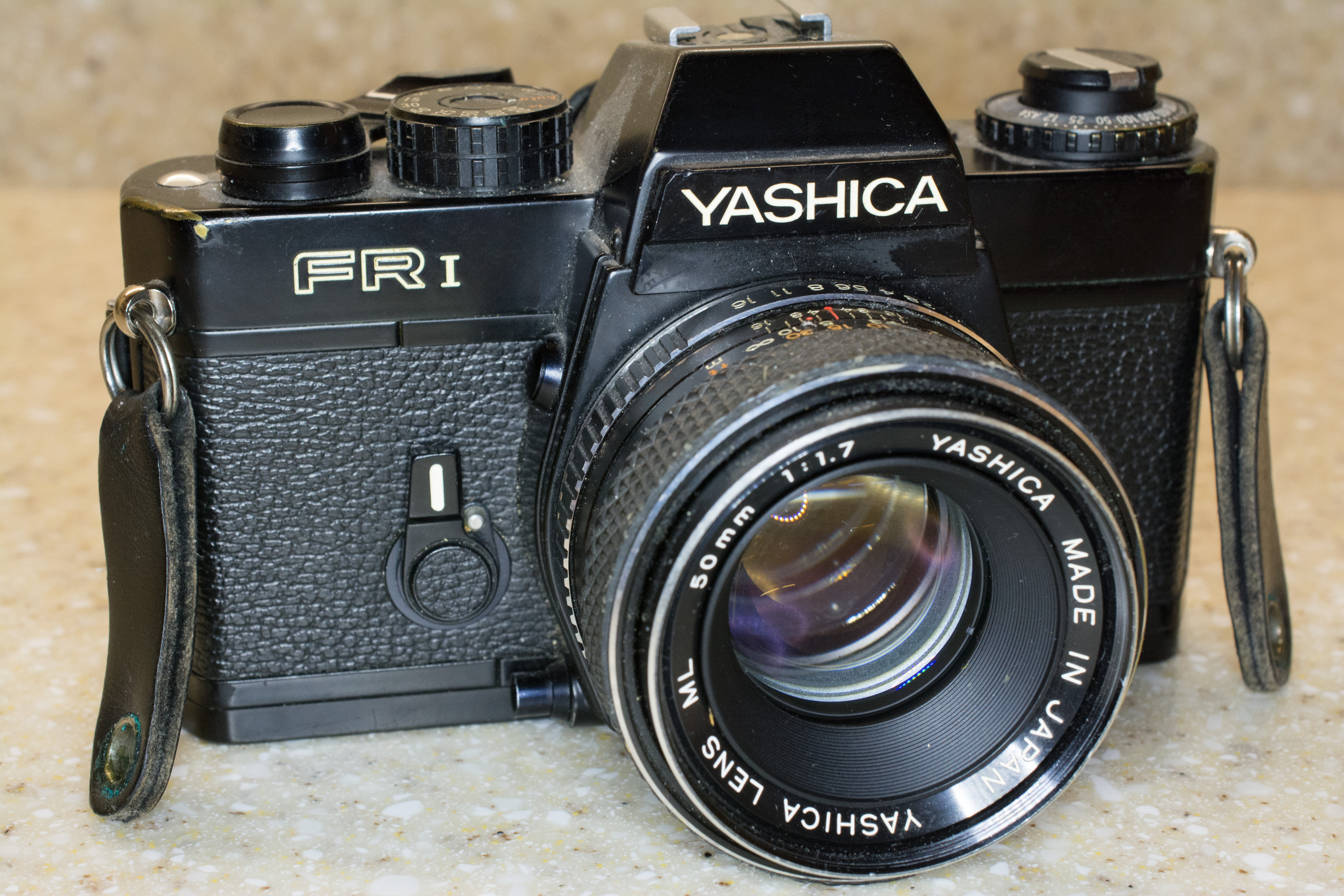 Yashica FR-I SLR with a ML 50mm f/1.7 lens